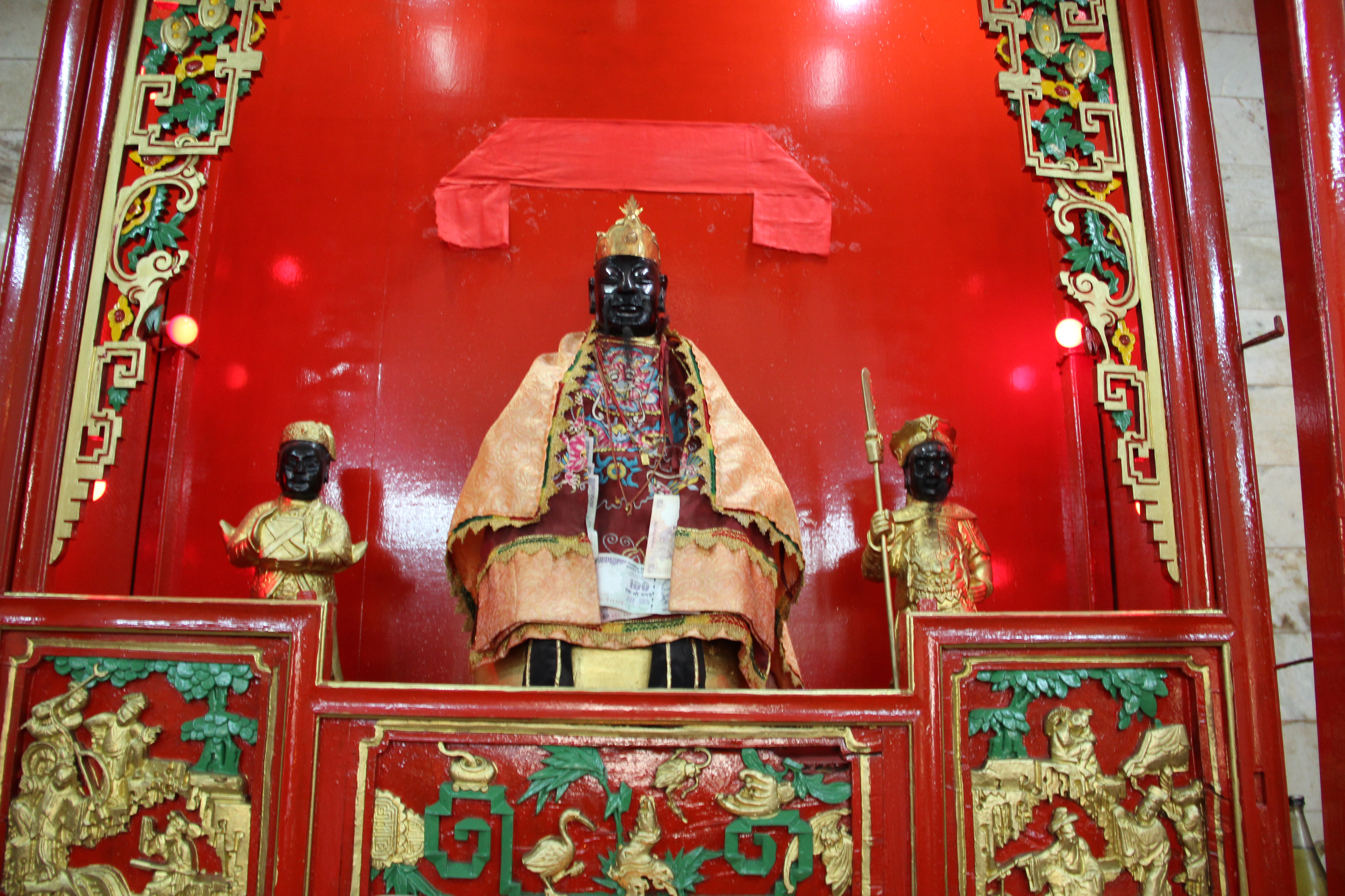 Chinese God in Nam Soon Church, Tirettabazar, Kolkata